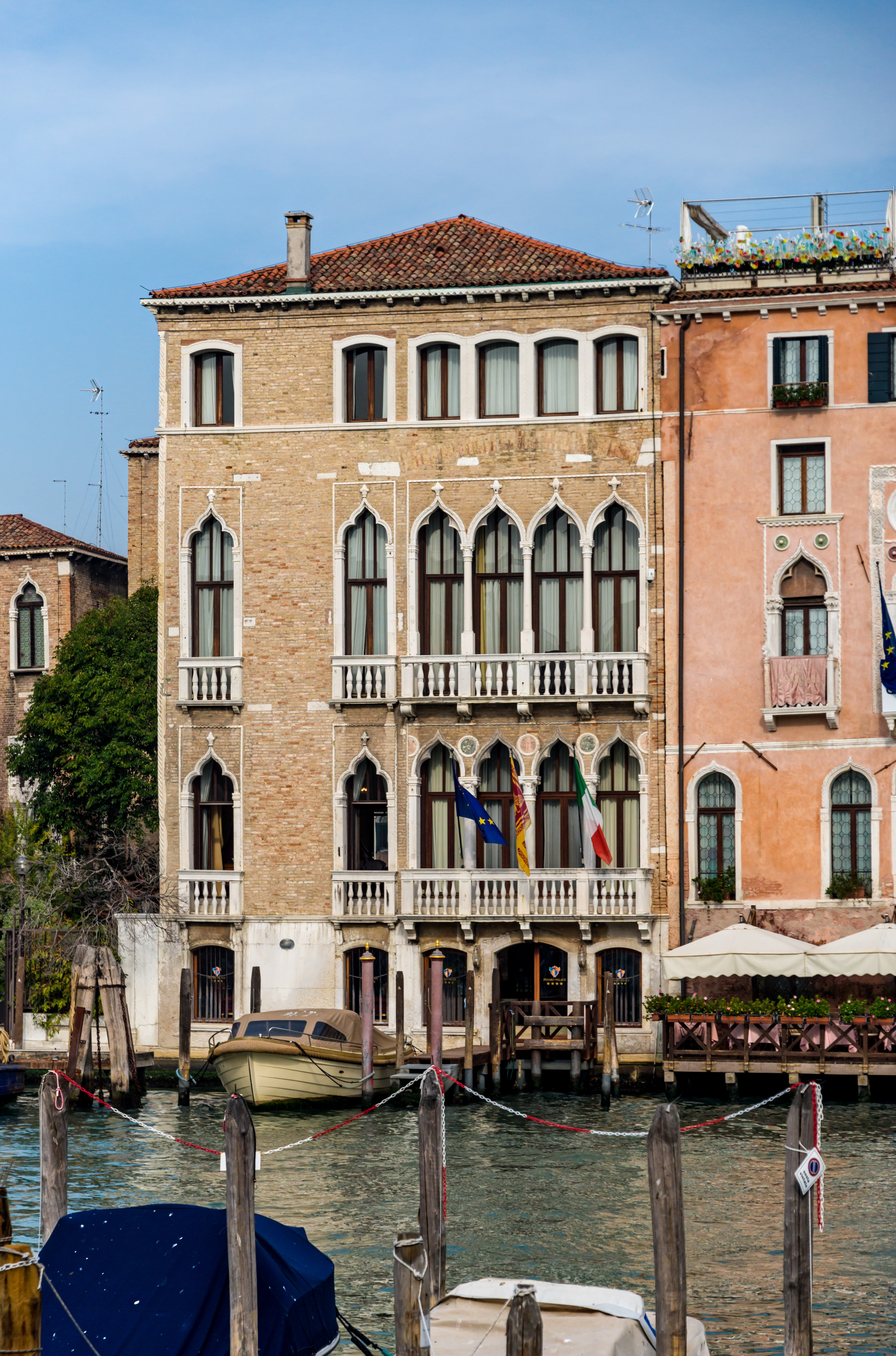 A stroll through Venice